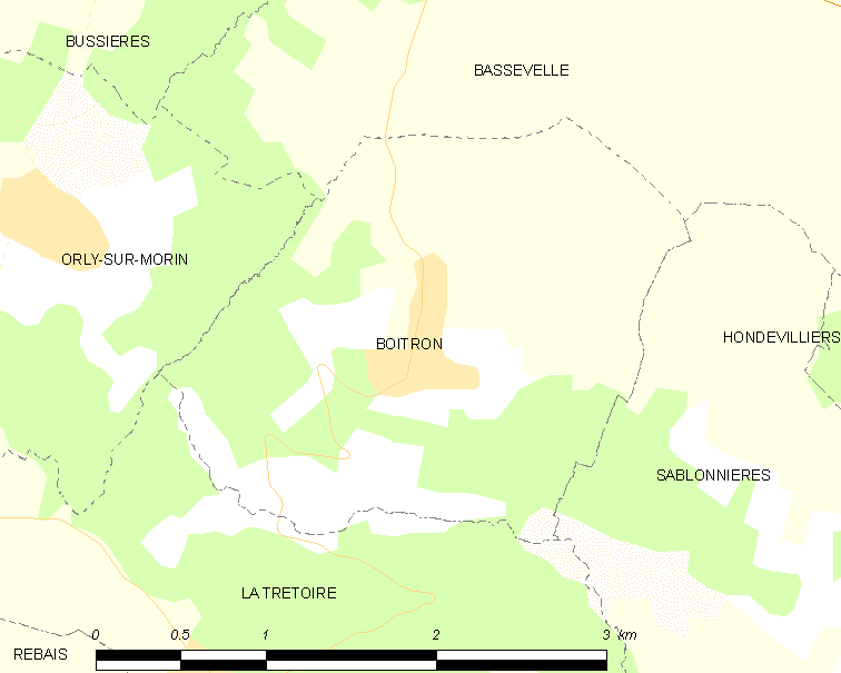 Map of French municipality Boitron